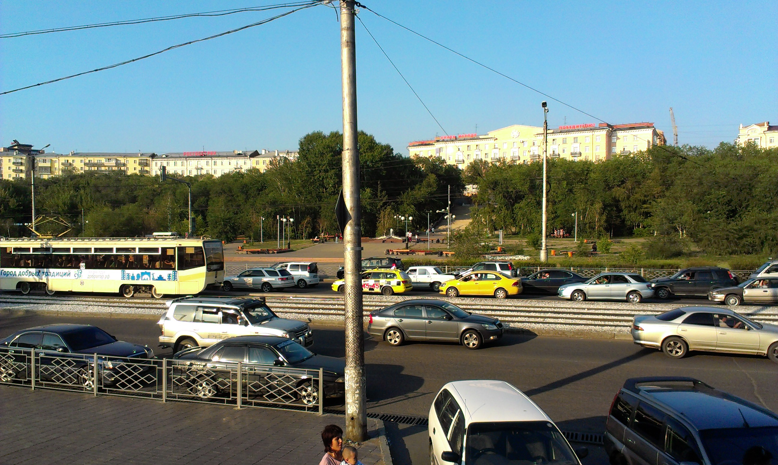 Baltakhinov street